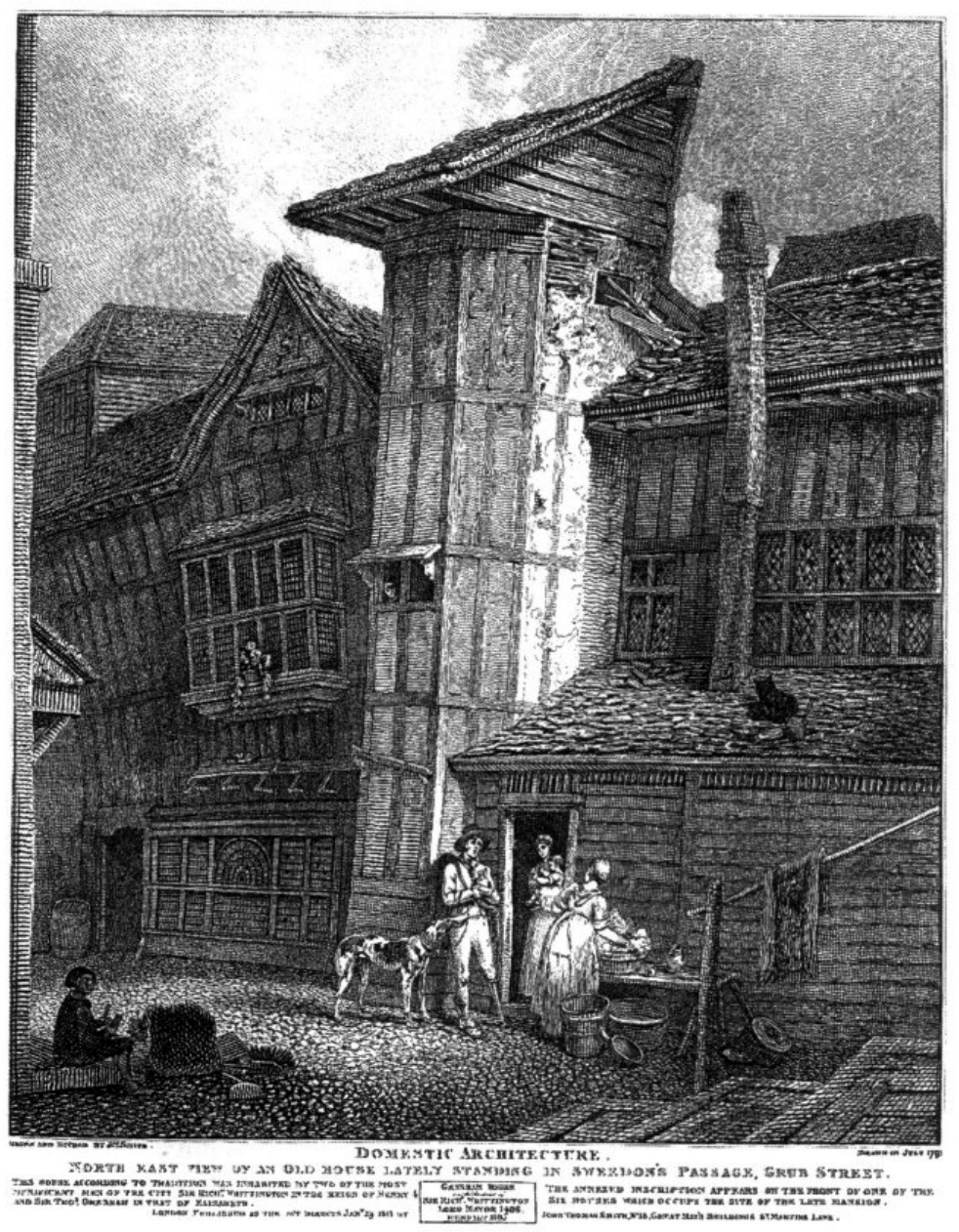 North East view of an old house lately standing in Sweedon's Passage, Grub Street. . . . Drawn in July 1791. London Published as the Act Directs Jany 29 1811, By John Thomas Smith No. 18, Great May's Buildings St. Martins Lane.